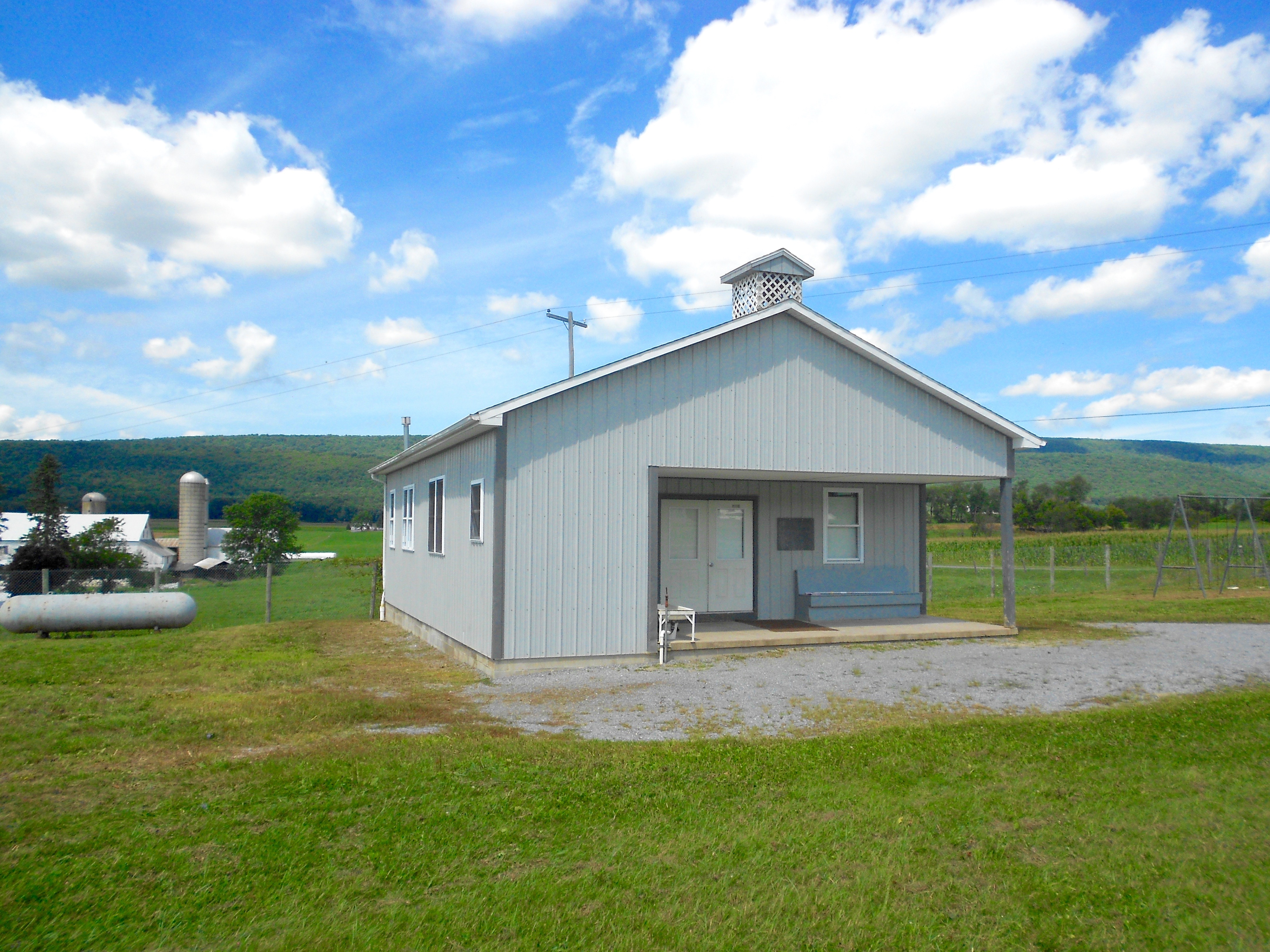 Amish school near Rebersburg, Centre County, Pennsylvania. Fairly new construction. A young man who likely attended told me that there were 2 teachers for the school for grades 1-8. Looks like it would fit 30-50 students. 2 outhouses in back. The boy's was a one seated with a small trough. There's running water at the entryway to the school